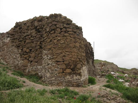 Lambsar fortress, Alamut, Iran